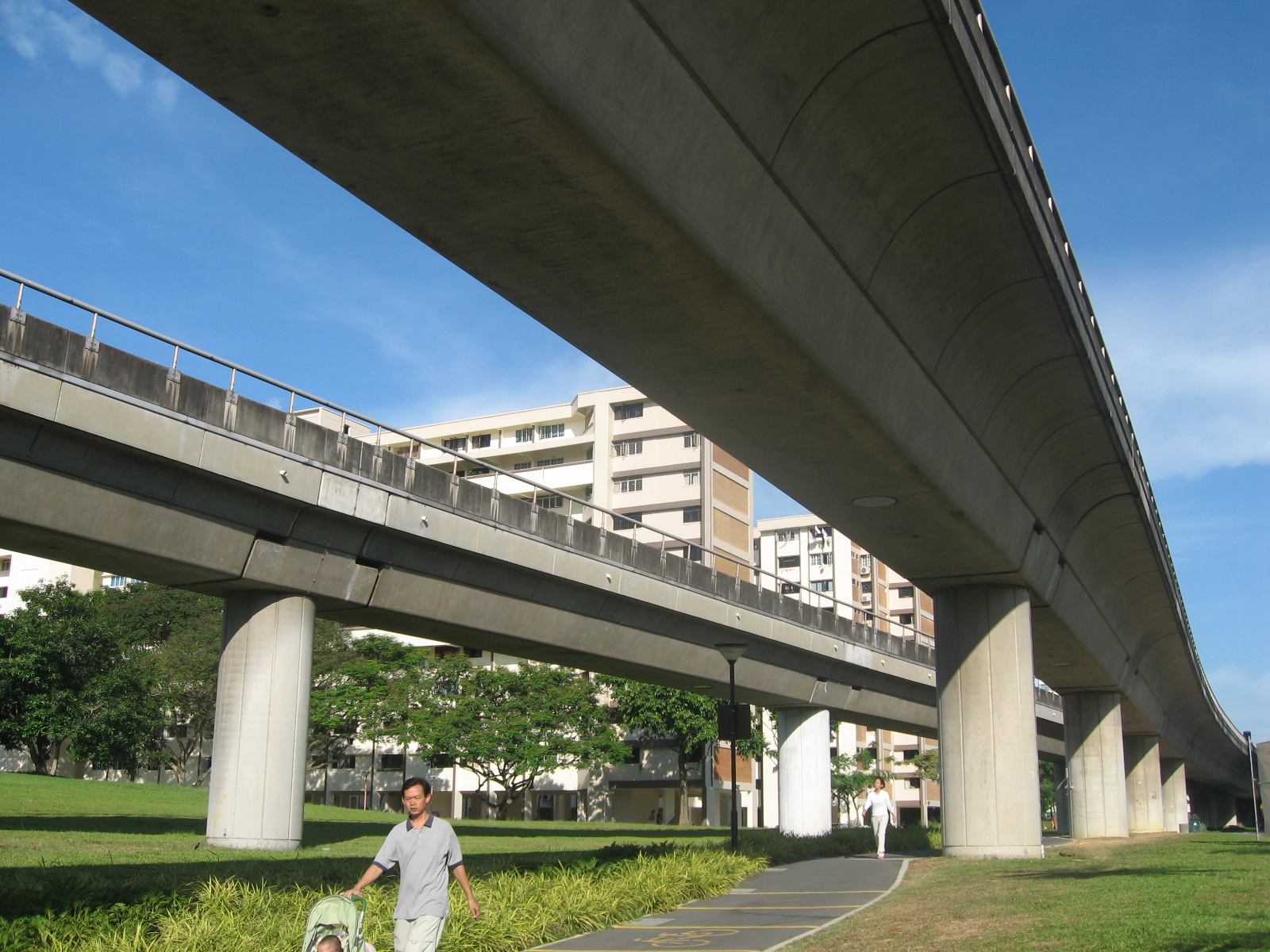 East West MRT Line tracks near Tampines MRT Station.